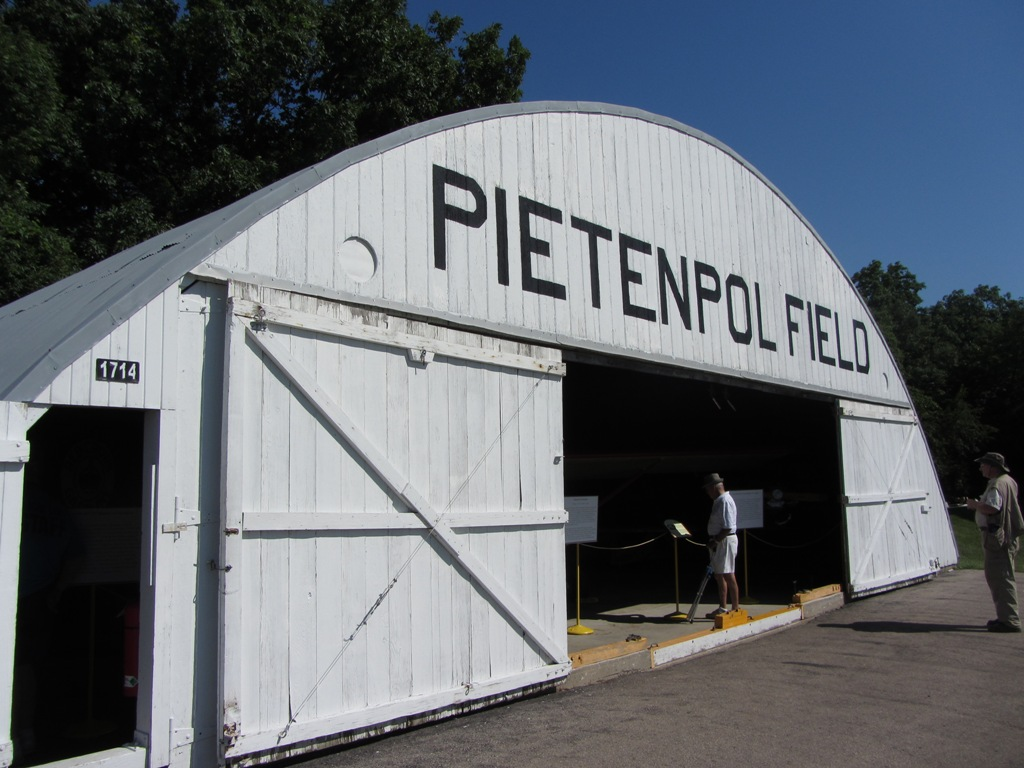 Pietenpol Field Hangar moved to EAA Airventure Museum Pioneer Field in 1984